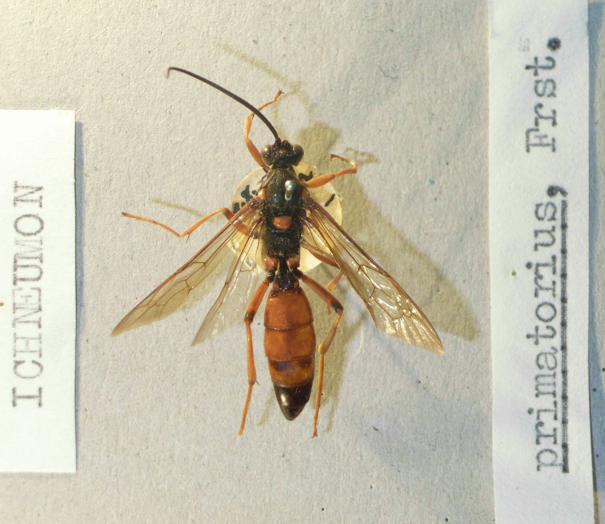 Ichneumon primatorius